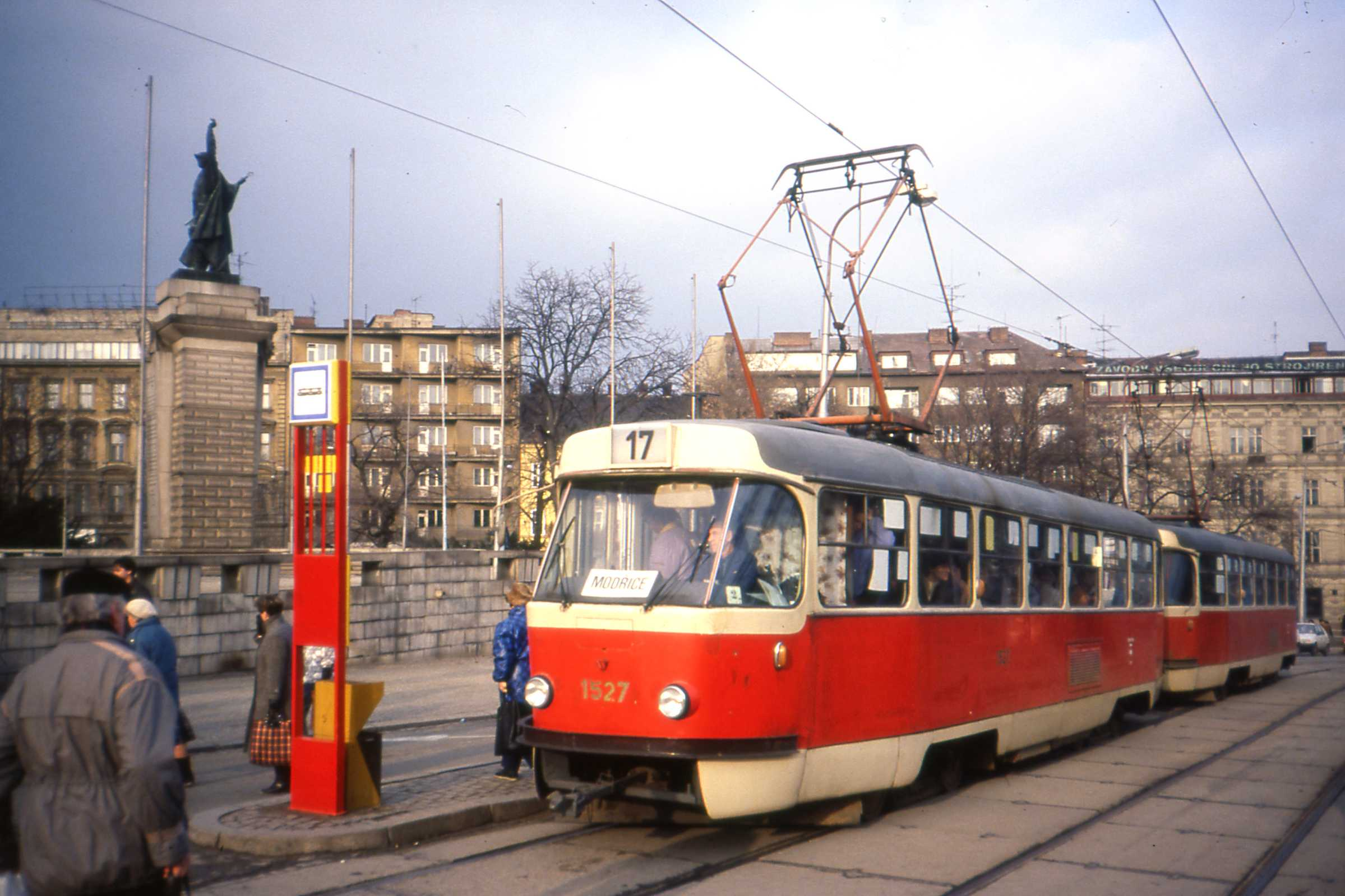 Tatra T3 trams in Brno, Czech Republic, 1992